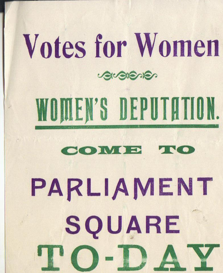 Flier for a suffragette demonstration for 10 November 1910; the subsequent events in Parliament square became known as Black Friday